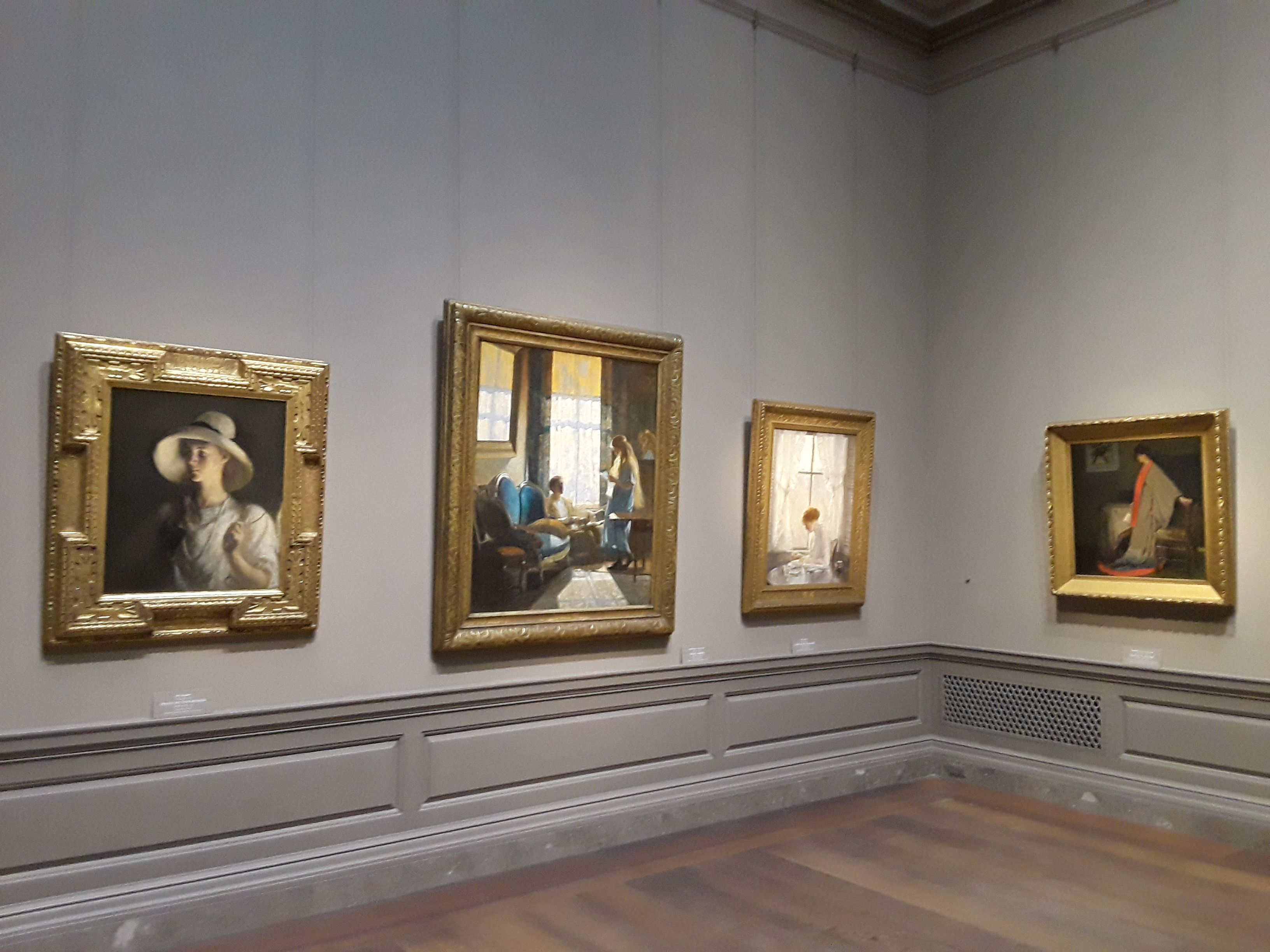 Gallery display of American paintings formerly in the collection of the Corcoran Gallery of Art, now at the National Gallery of Art in Washington, D.C.